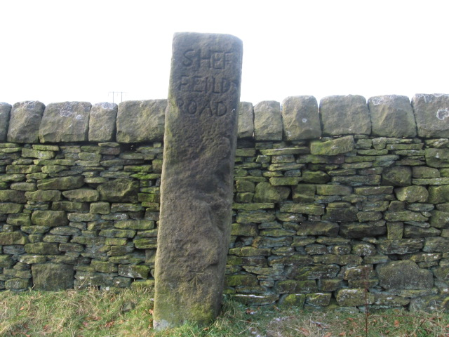 Signpost at Moscar Cross with OS benchmark